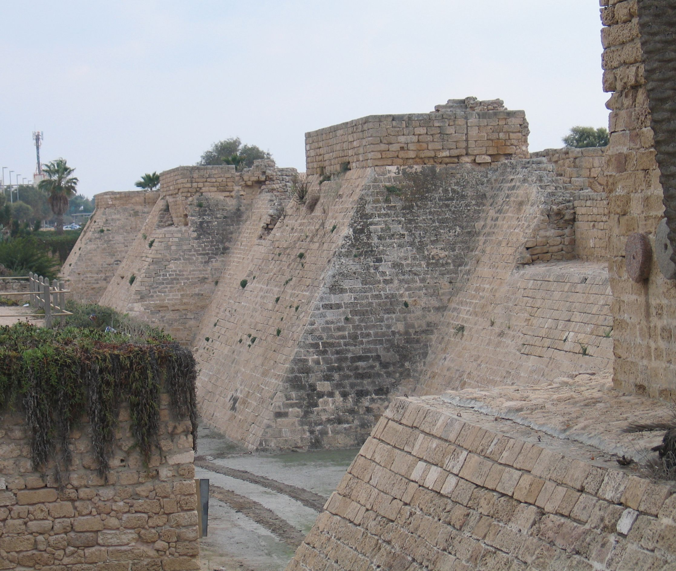 Caesarea Maritima, Israel. Town wall south of the eastern gate.